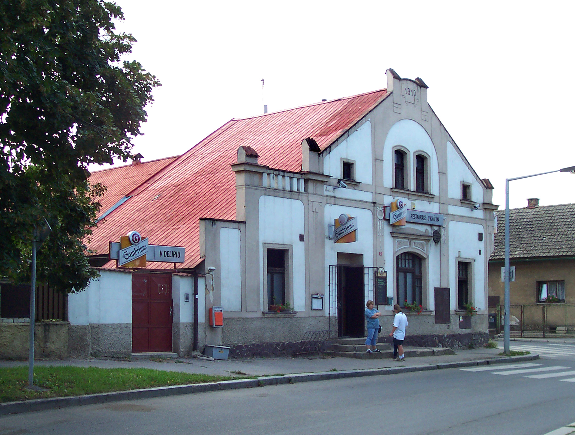 Pub at Lípové square in Dubeč, Prague